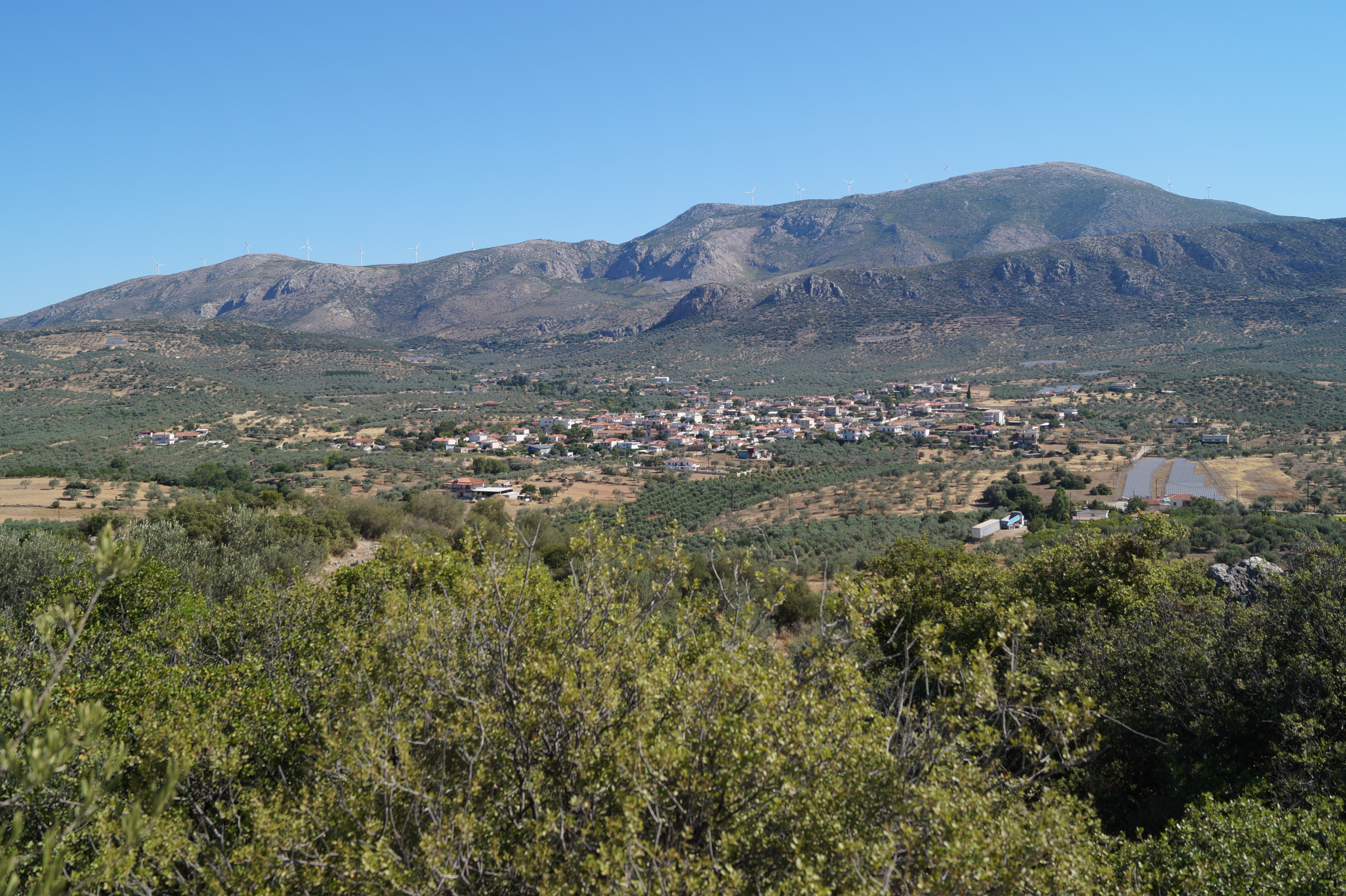 Greece, Argolis, Acropolis of Kazarma: View from the acropolis to the north on the village of Metochi. In the background there is mount Arachneo (Arachnaion) and the promontory Basiovrakhos.